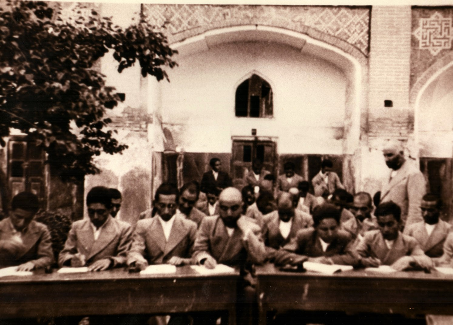 Students of Madrasa Baqireh in Mashhad-1927s The Madrasa was built before 1672-1083 A.H. and it provided education for students for about 300 years until it was demolished in 1975, because of expansion of the surrounding area of Imam Reza shrine.